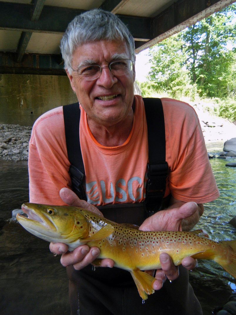 Walt Keller, a former fisheries manager for the New York State Department of Environmental Conservation, holds a large brown trout taken from the upper Esopus Creek during a 2009 research trip